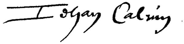 Signature of John Calvin